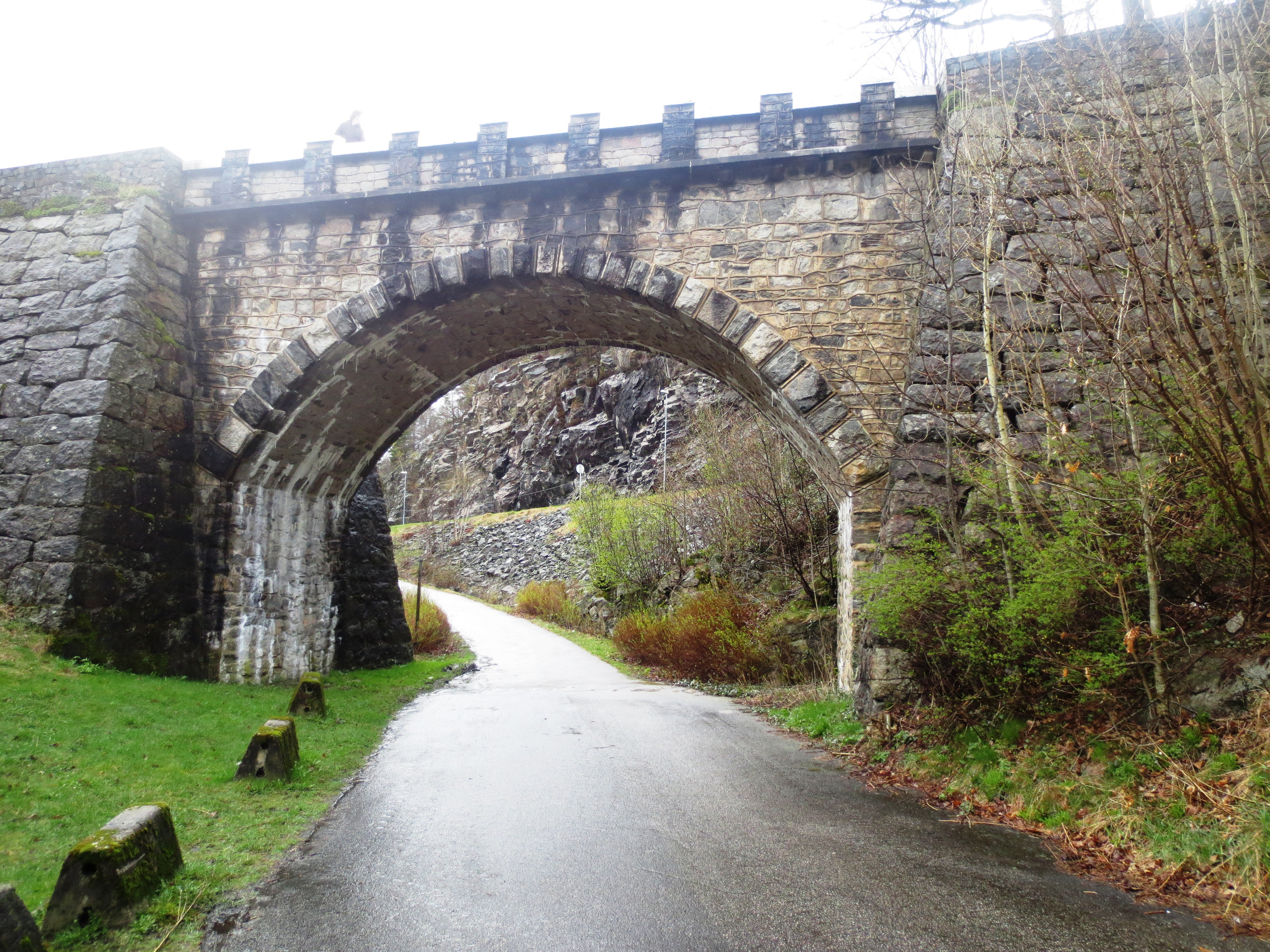 "Knuden" old bridge from 1922, in Lindesnes municipality, west of Kristiansand and along the now E-39 highway. Agder county, south Norway.